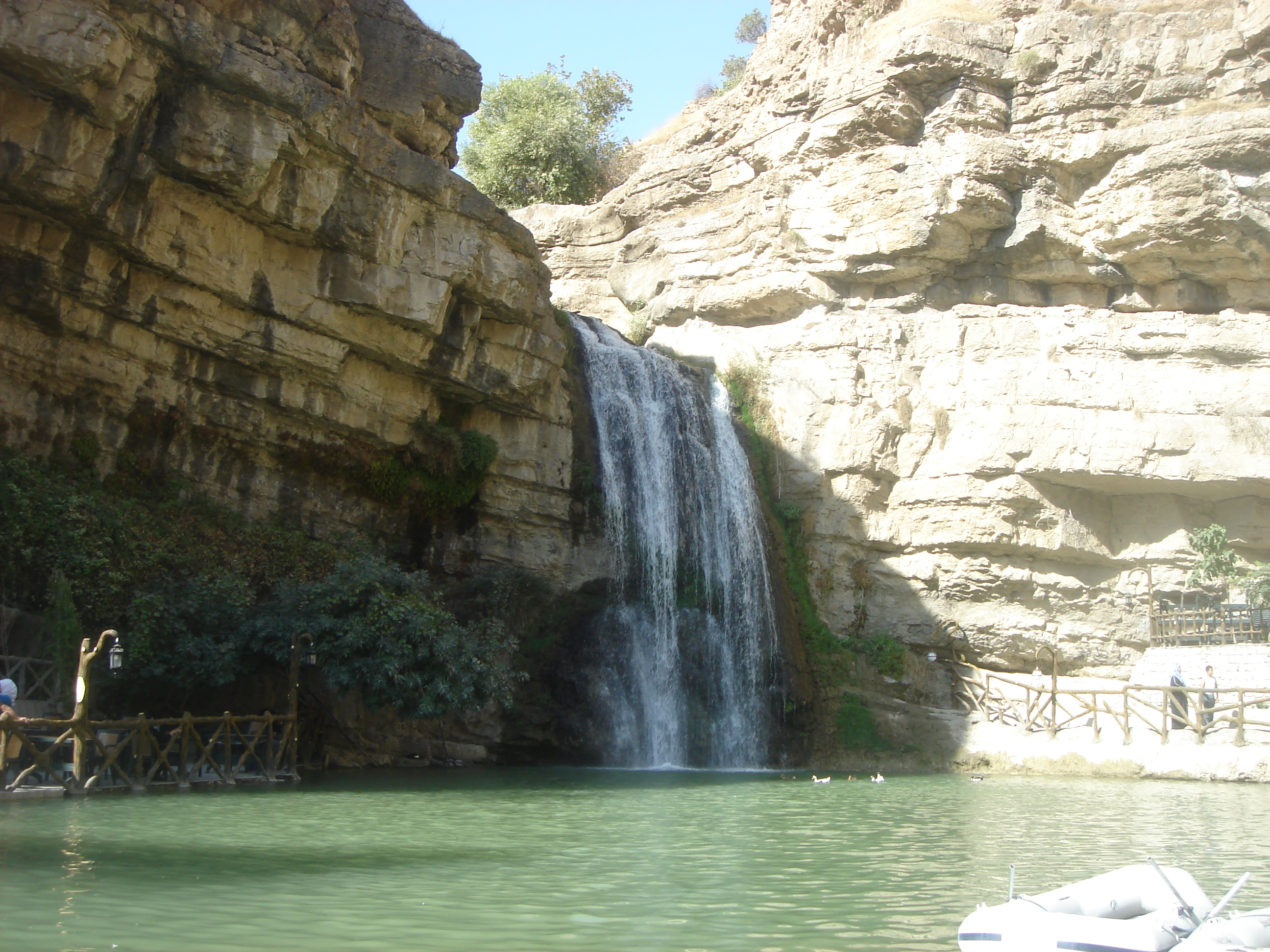 Gali Ali Beg Waterfall, northern Arbil, Iraqi Kurdistan